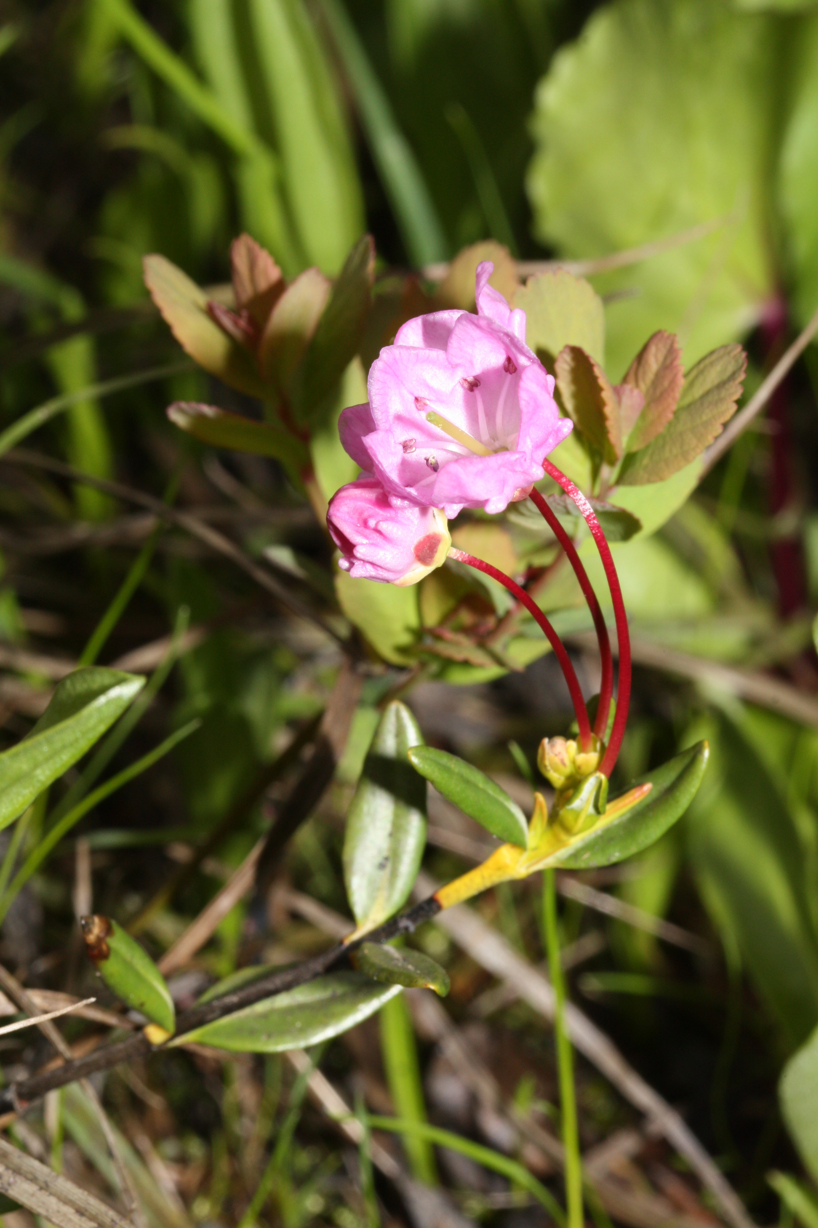 Western Swamp Laurel, Alpine Laurel